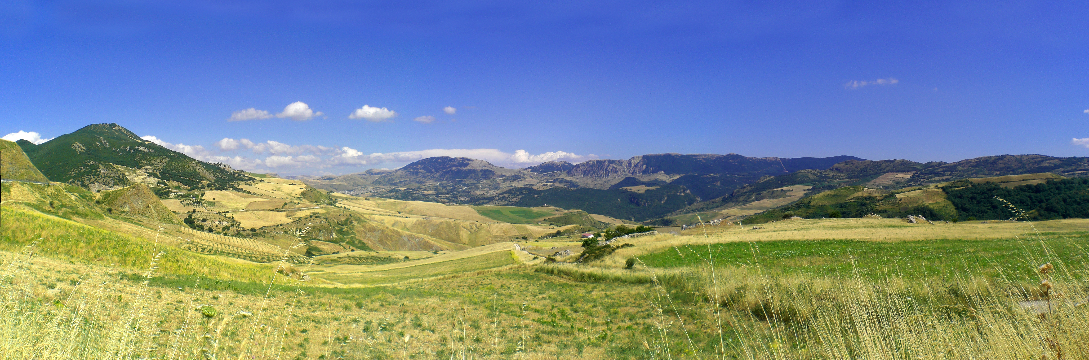 View On Black